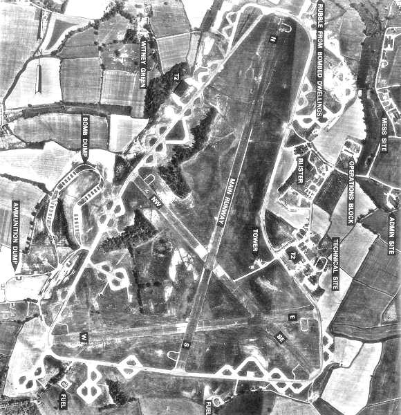 Aerial photograph of RAF station Chipping Ongar, England.